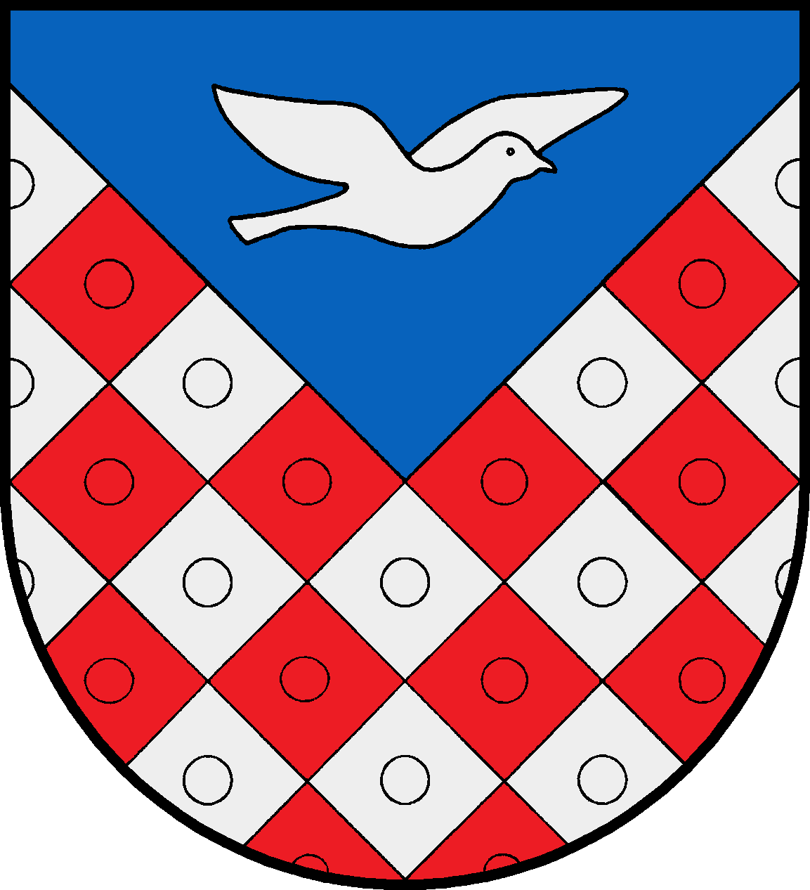 Coat of arms of the municipality Duvensee in Schleswig-Holstein, Germany.